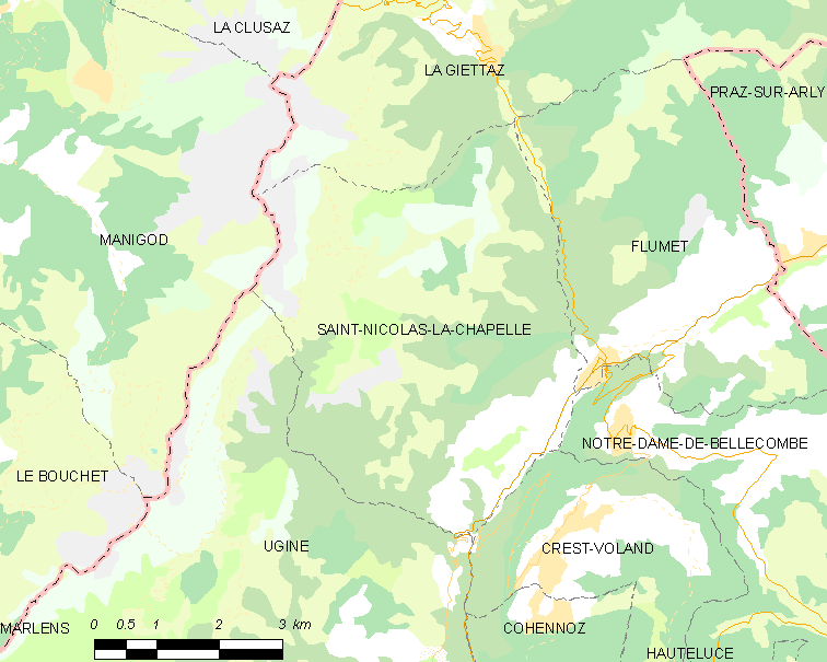 Map of French municipality Saint-Nicolas-la-Chapelle